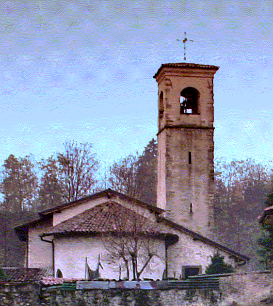 Oratory of San Donato in Terno d'Isola - Bergamo Italy